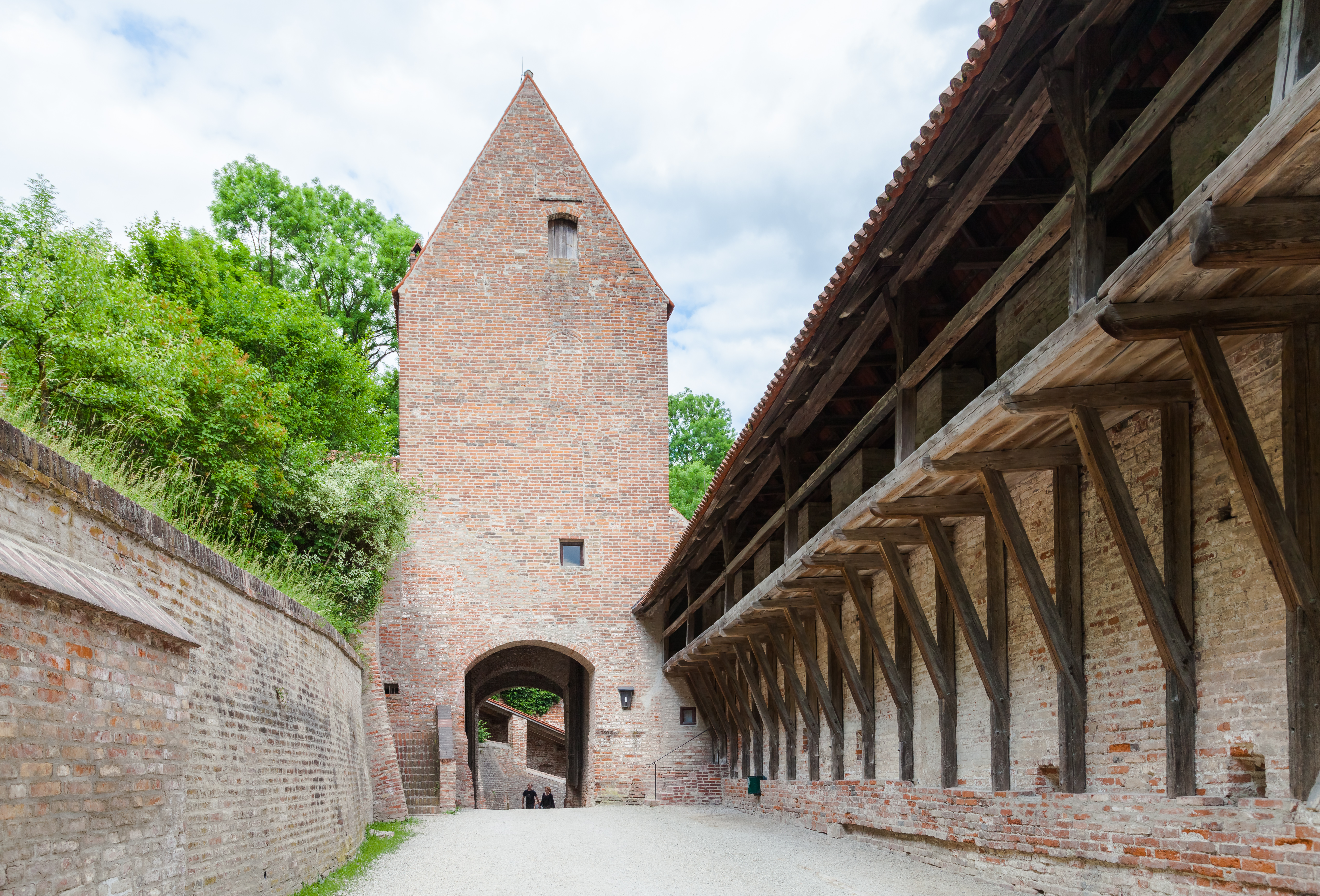 Trausnitz castle, Landshut, Germany